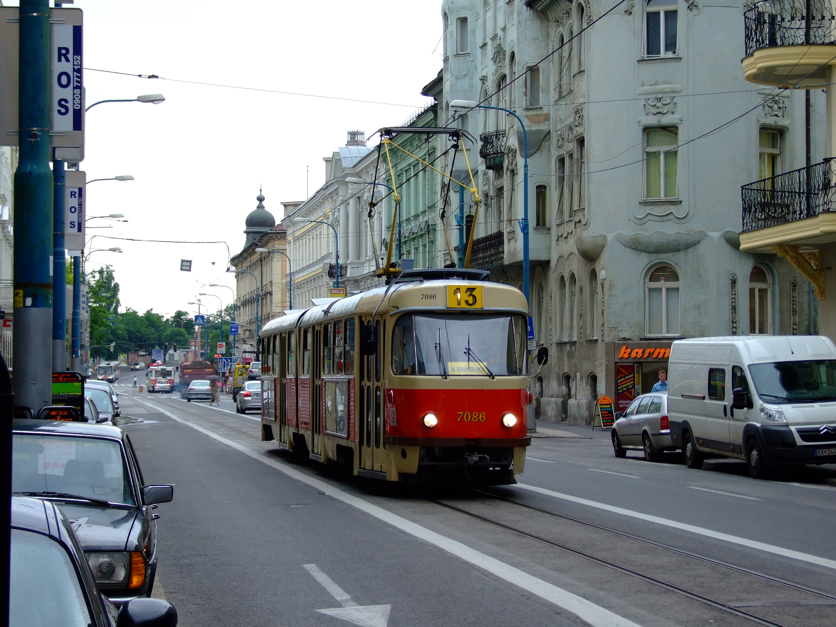 Public transport tram Tatra K2 in Bratislava, SK